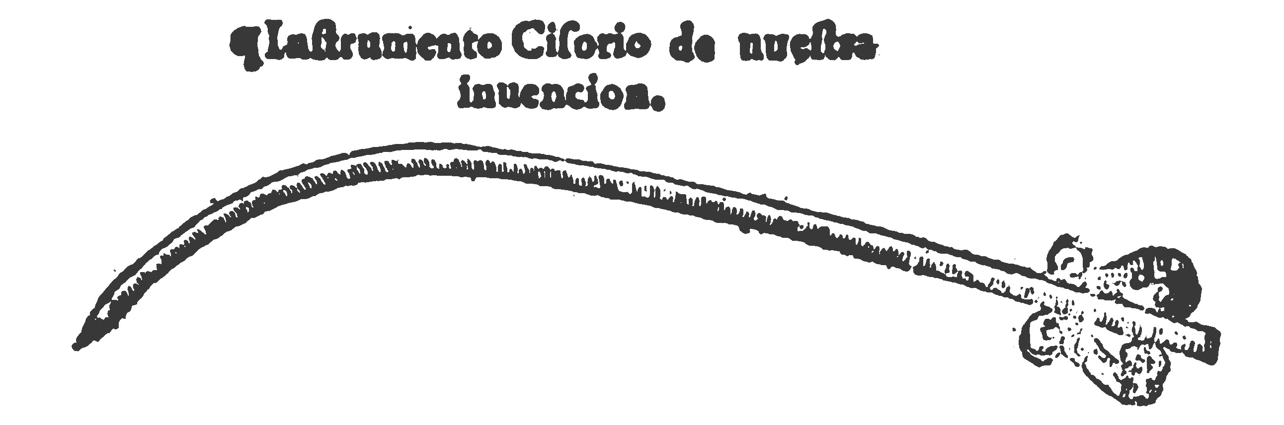 The instrument "cisorio" of Francisco Díaz in 1588.